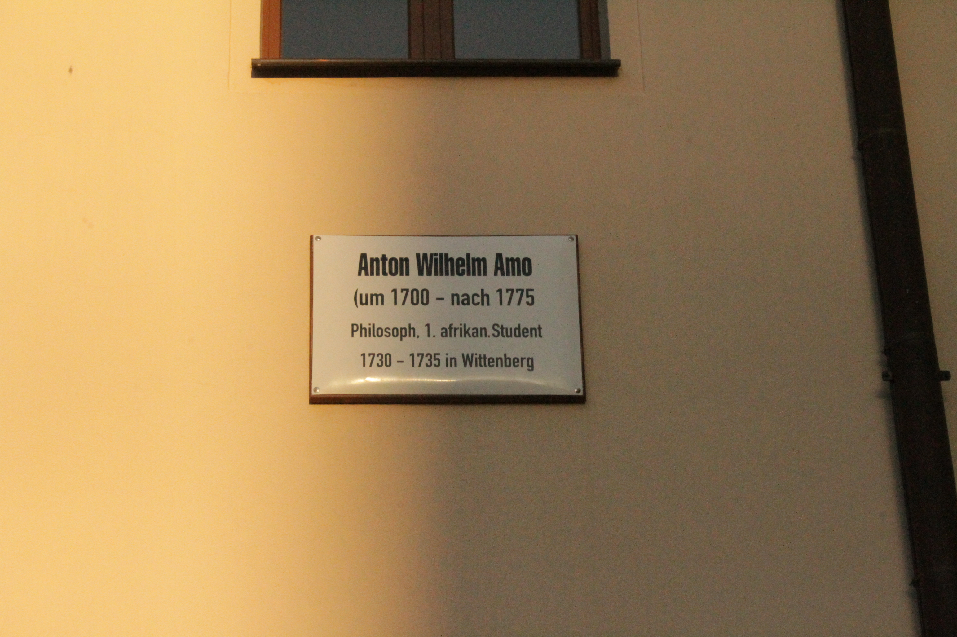 Plaque to Anton Wilhelm Amo, quadrangle, Wittenberg University